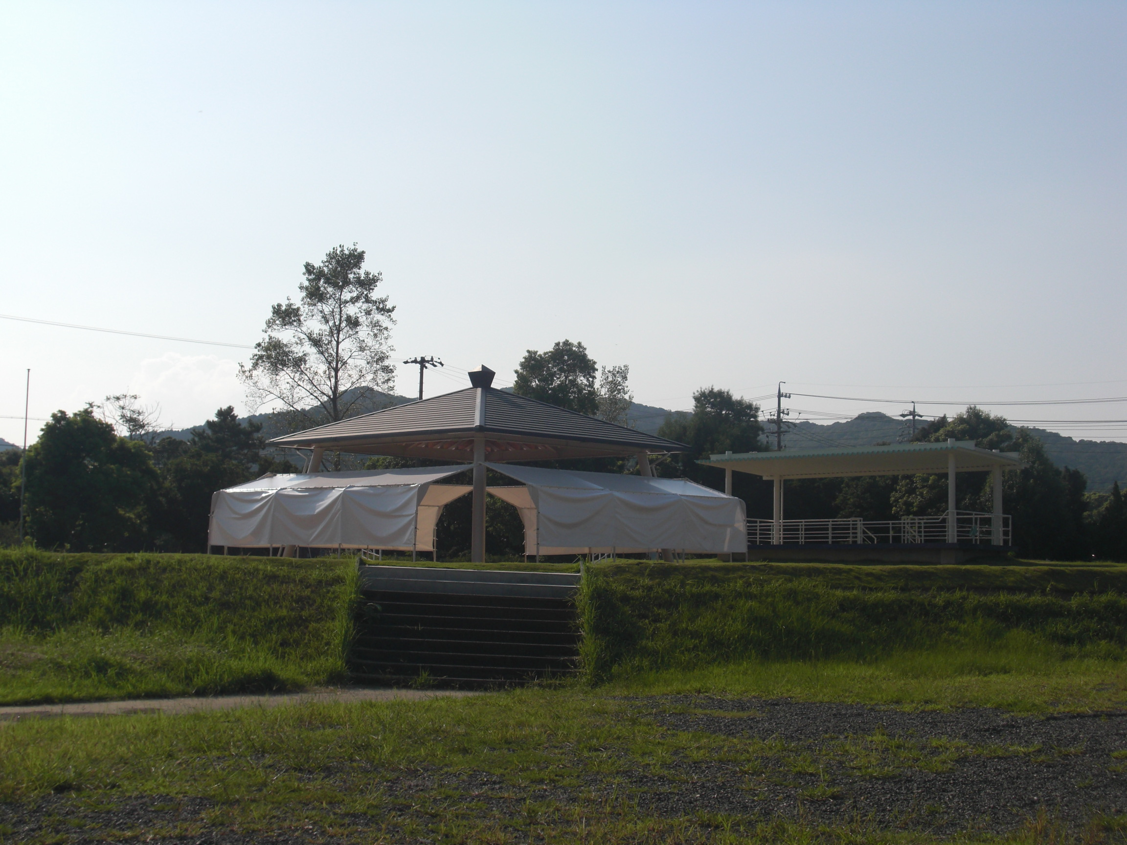 This is the Toba Central Park Sumo Field in Toba, Mie, Japan.